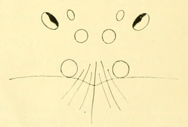 Gaius villosus, female adult, eye field, posterior part at top, drawing from species description by William Joseph Rainbow, 1914